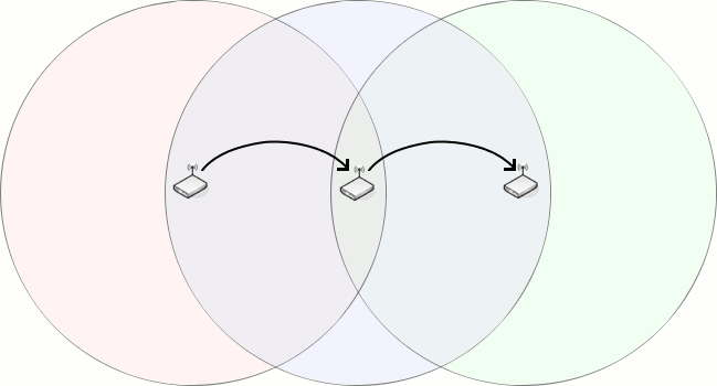 3 nodes that picopeer